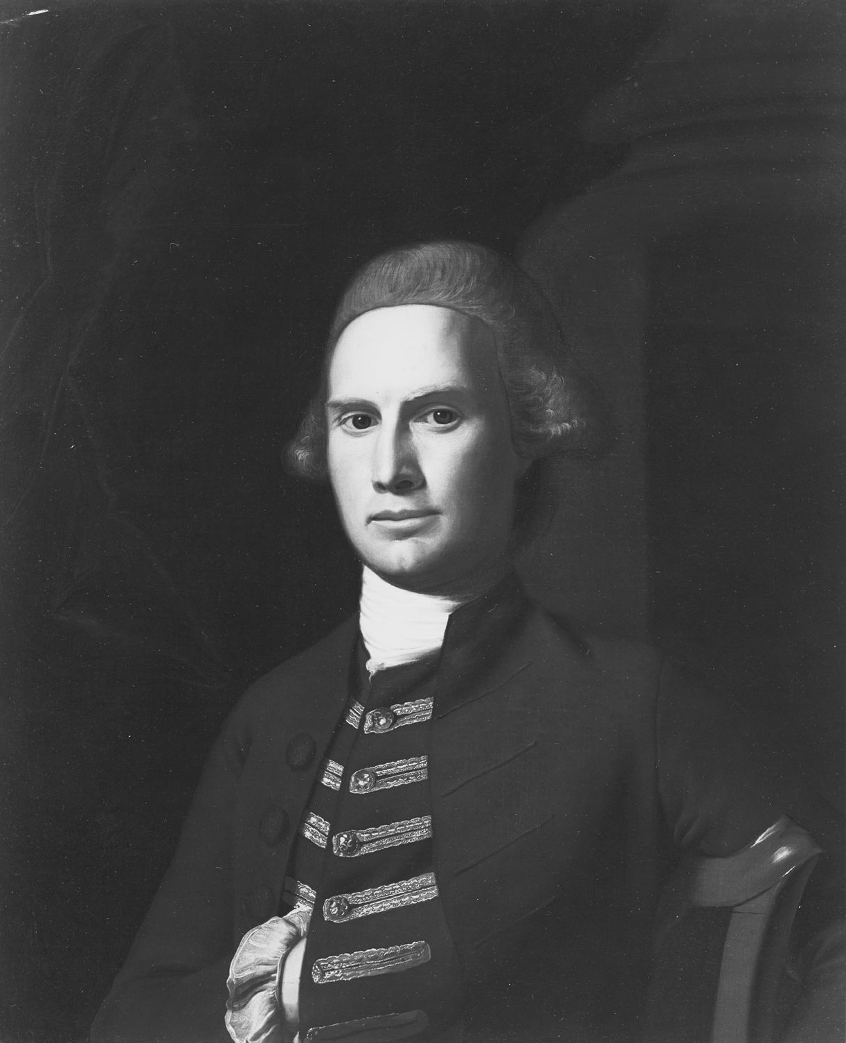 John Singleton Coply, "Jabez Bowen," oil on canvas, 30 x 25 in.